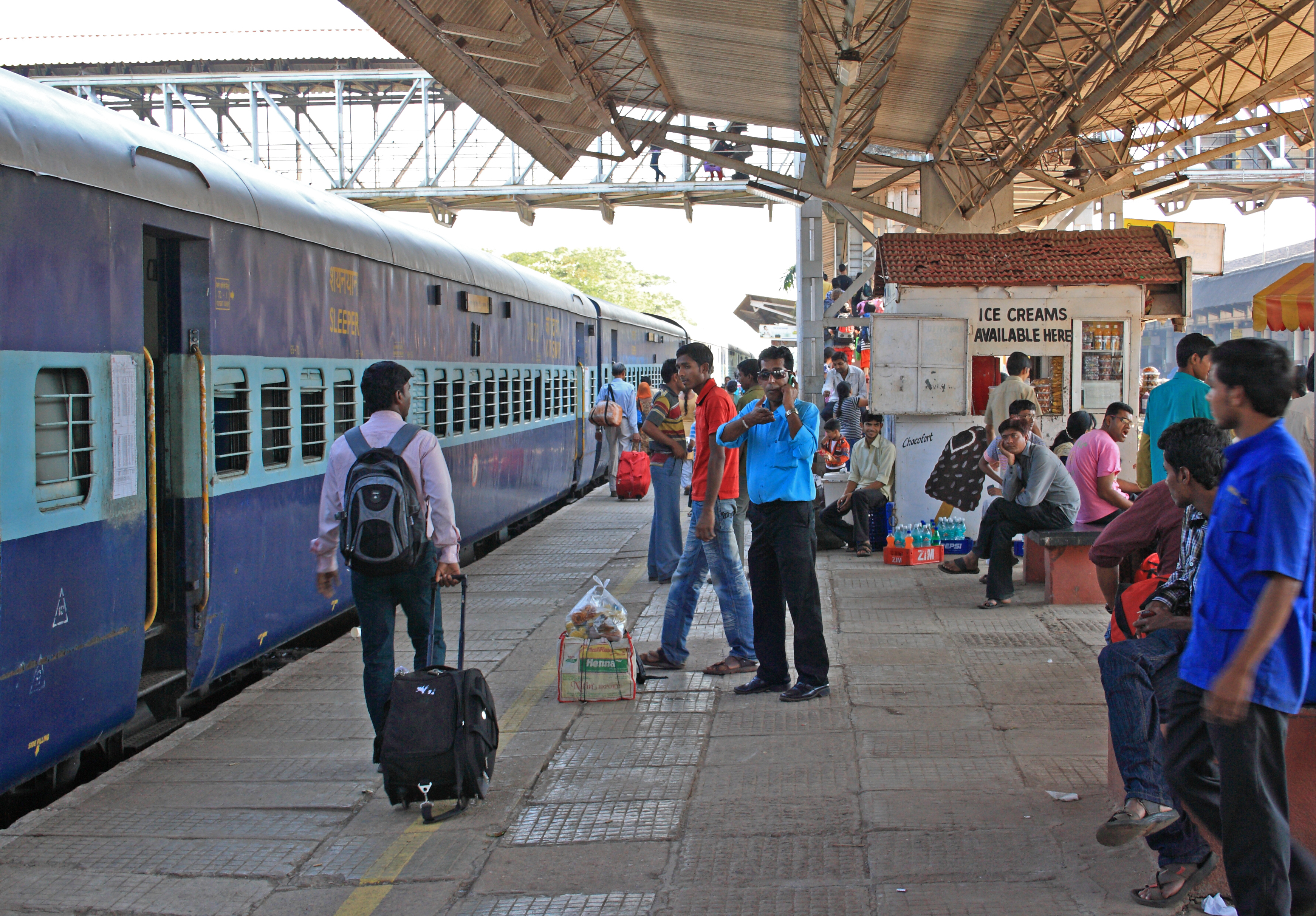 At Margao railwaystation in Goa